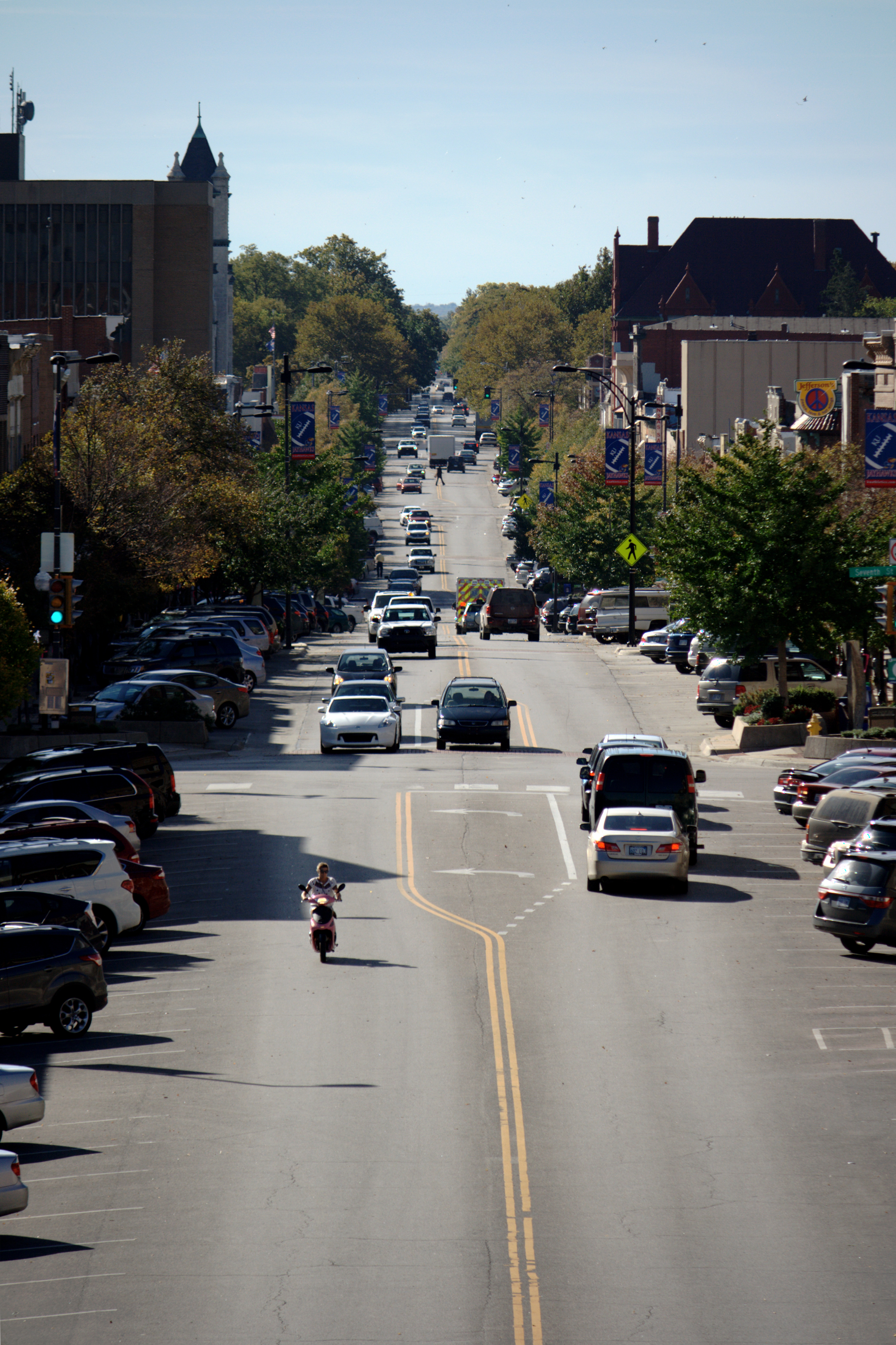 Massachusetts Street carries traffic through downtown Lawrence, Kansas.